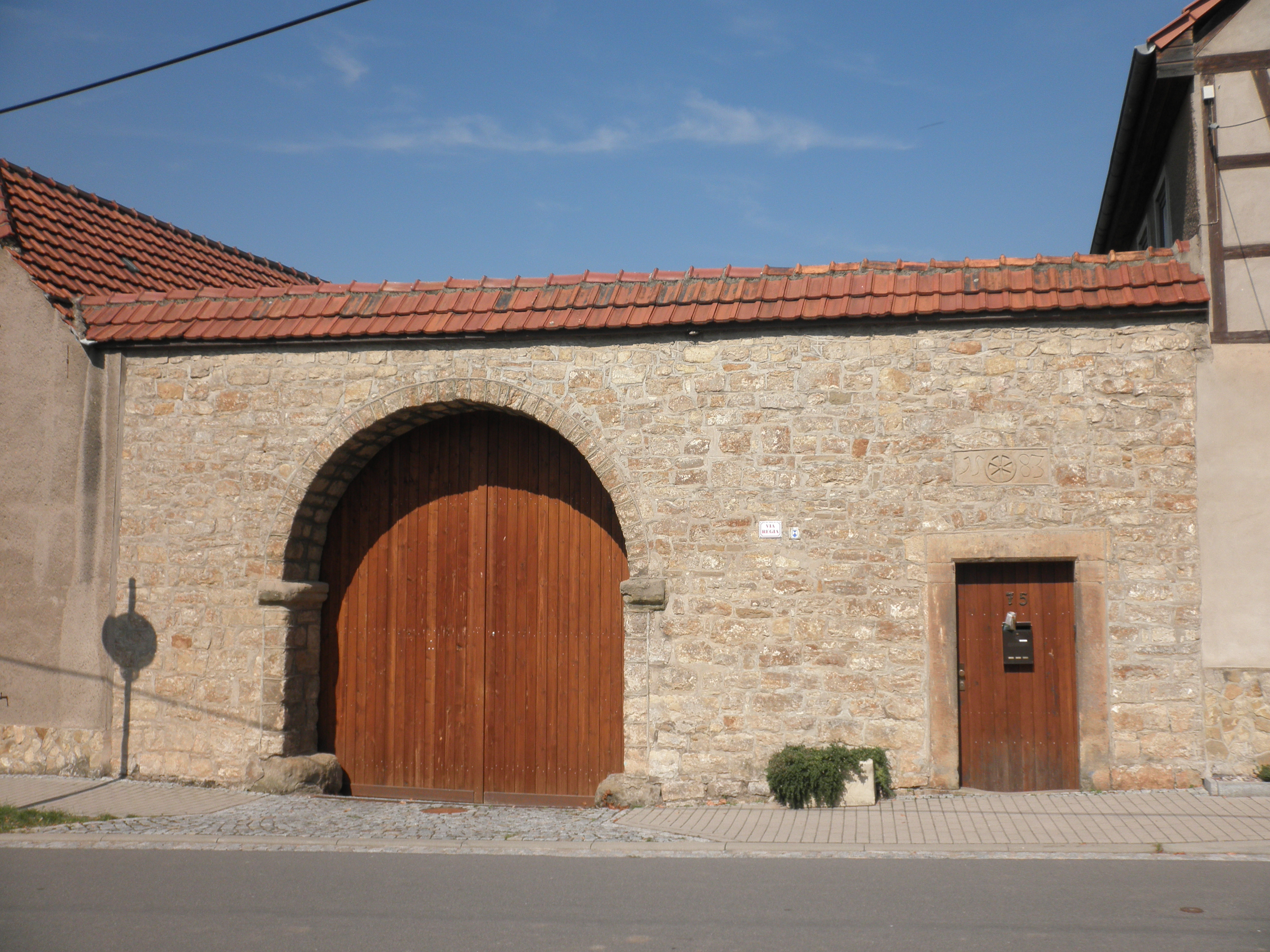 Gateway in Ollendorf in Thuringia